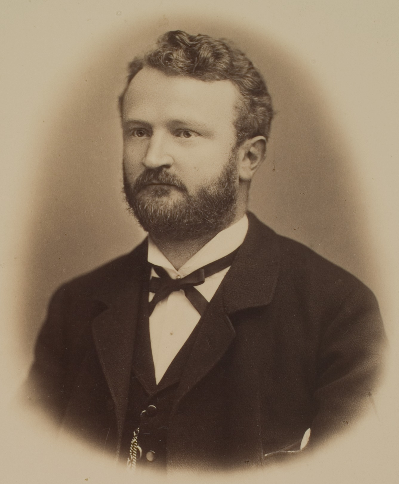 Richard Thoma, Anatom, 1877–1884 Professor in Heidelberg